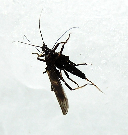 Taeniopteryx nivalis nymph and adult. Wisconsin R., WI, Mar. 2009